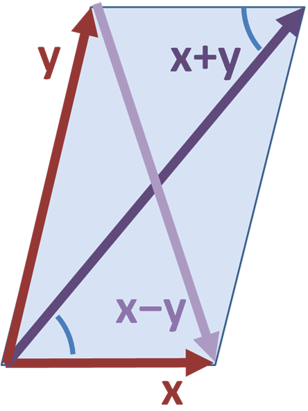 Vectors involved in parallelogram law